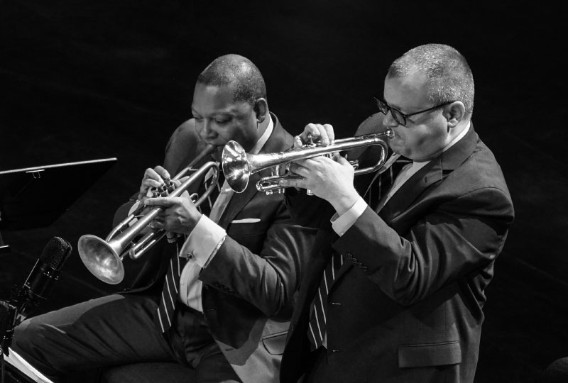 Ryan Kisor with Wynton Marsalis playing with Jazz at Lincoln Center Orchestra in Denmark (Aalborg 2020)